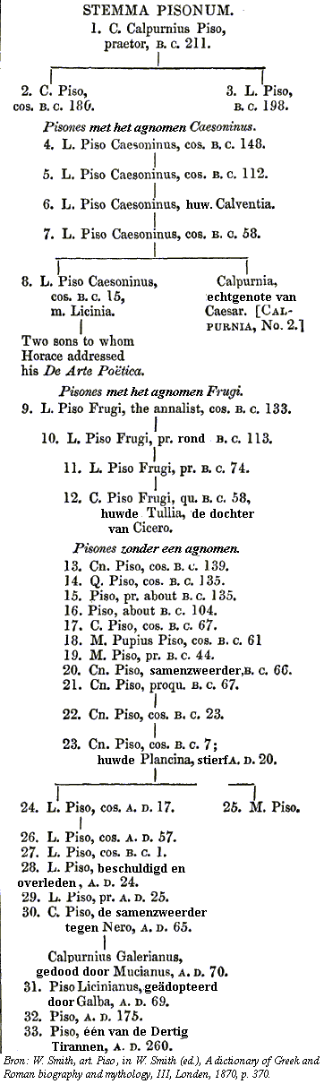 Family tree of the Roman family of the Pisones, belonging to the Gens Calpurnia. Scanned from: W. Smith, art. Piso, in W. Smith (ed.), A dictionary of Greek and Roman biography and mythology, III, Londen, 1870, p. 370.